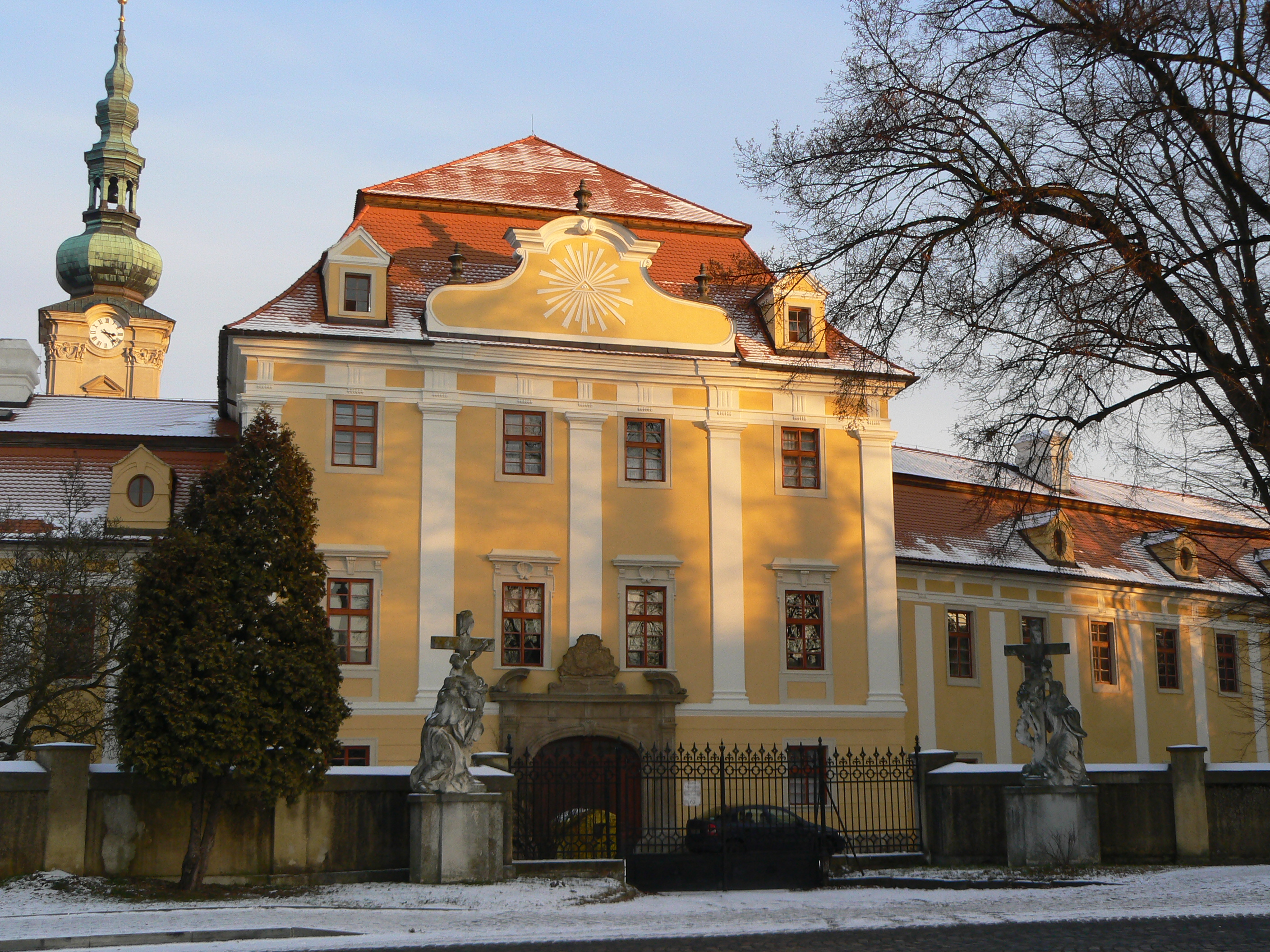 One of the entrances of the Stojan's Comprehensive School